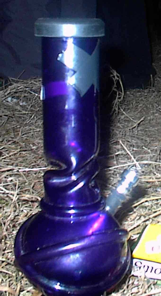 This is a blue bong with an ice twist for storing ice thus cooling the smoke.